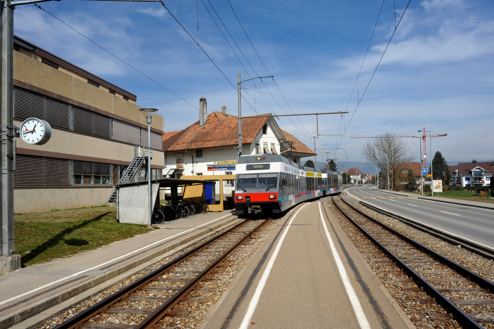 Stop and crossing Lattrigen of the ASm in Sutz-Lattrigen; Berne, Switzerland. Two GTW 2/6 direction Täuffelen–Ins.